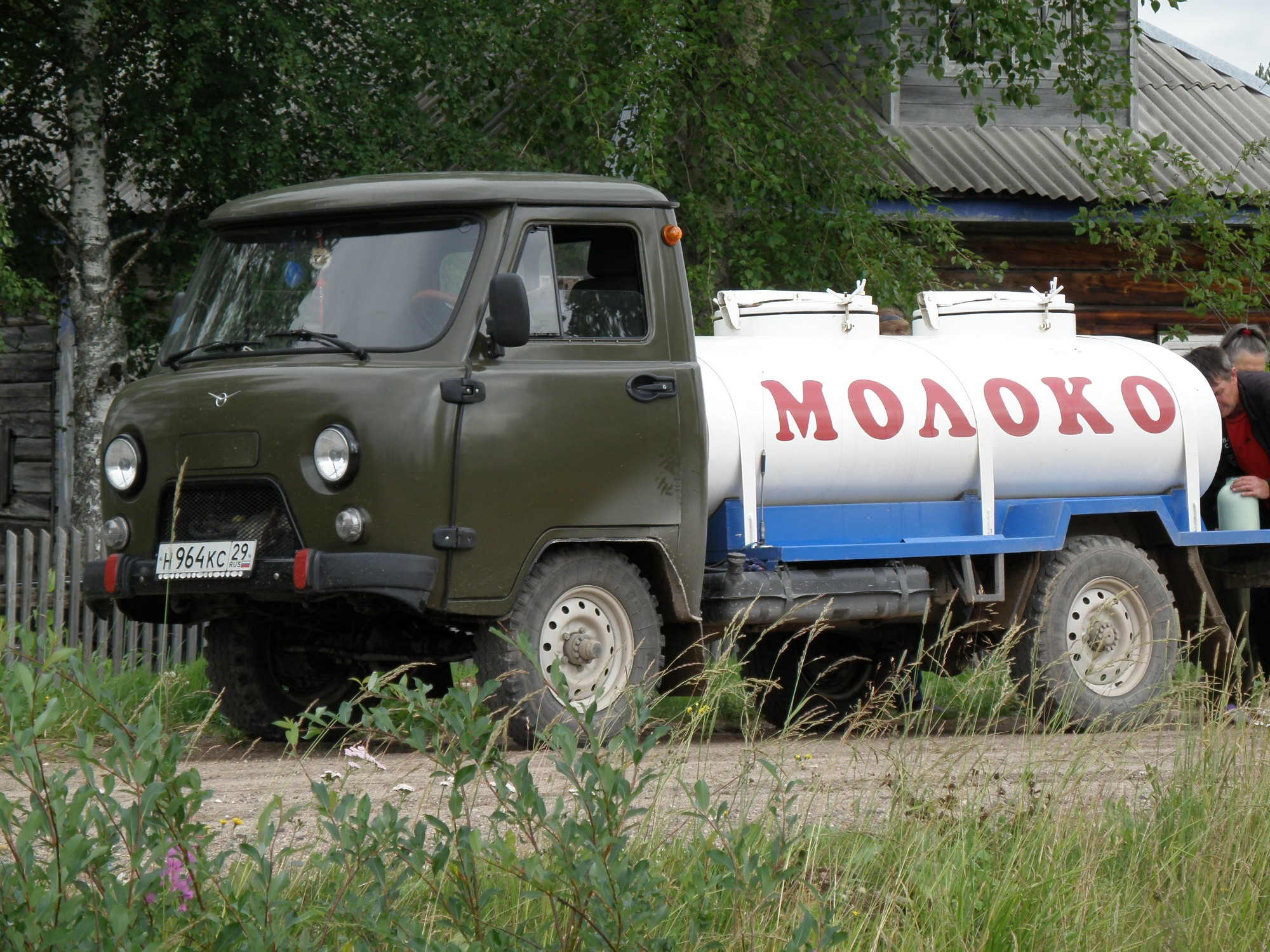 UAZ-452АЕ (1966-1985) milk truck in Russia.